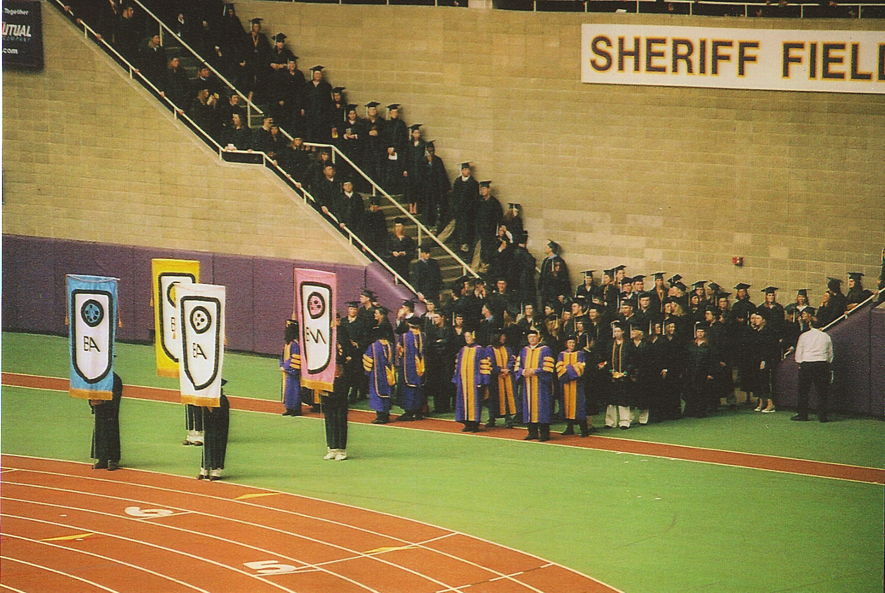 UNI professors and students on the UNIDome floor and concourse prior to graduation exercises, December 2005.